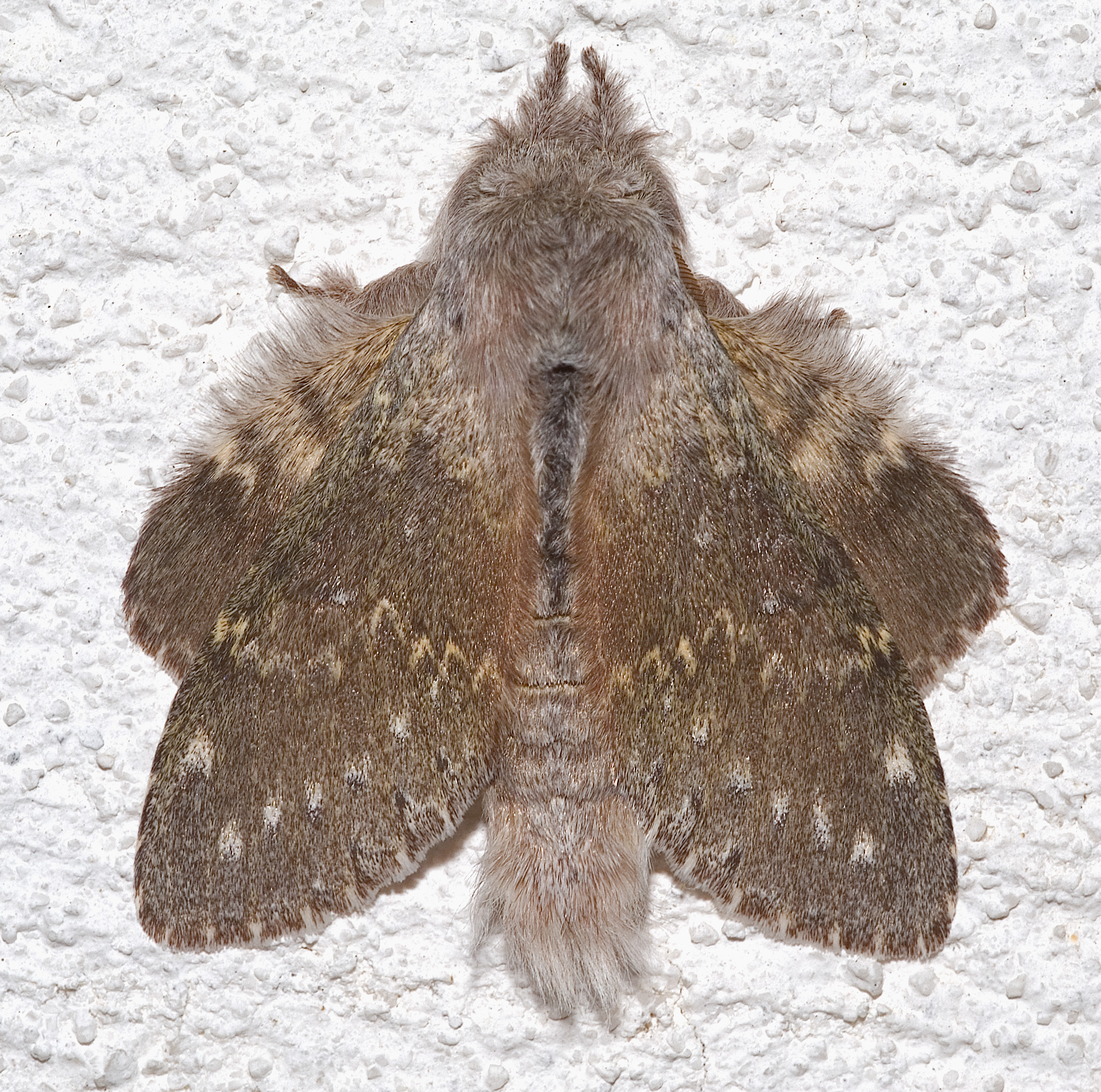 Please report references to kulacgmx.at.